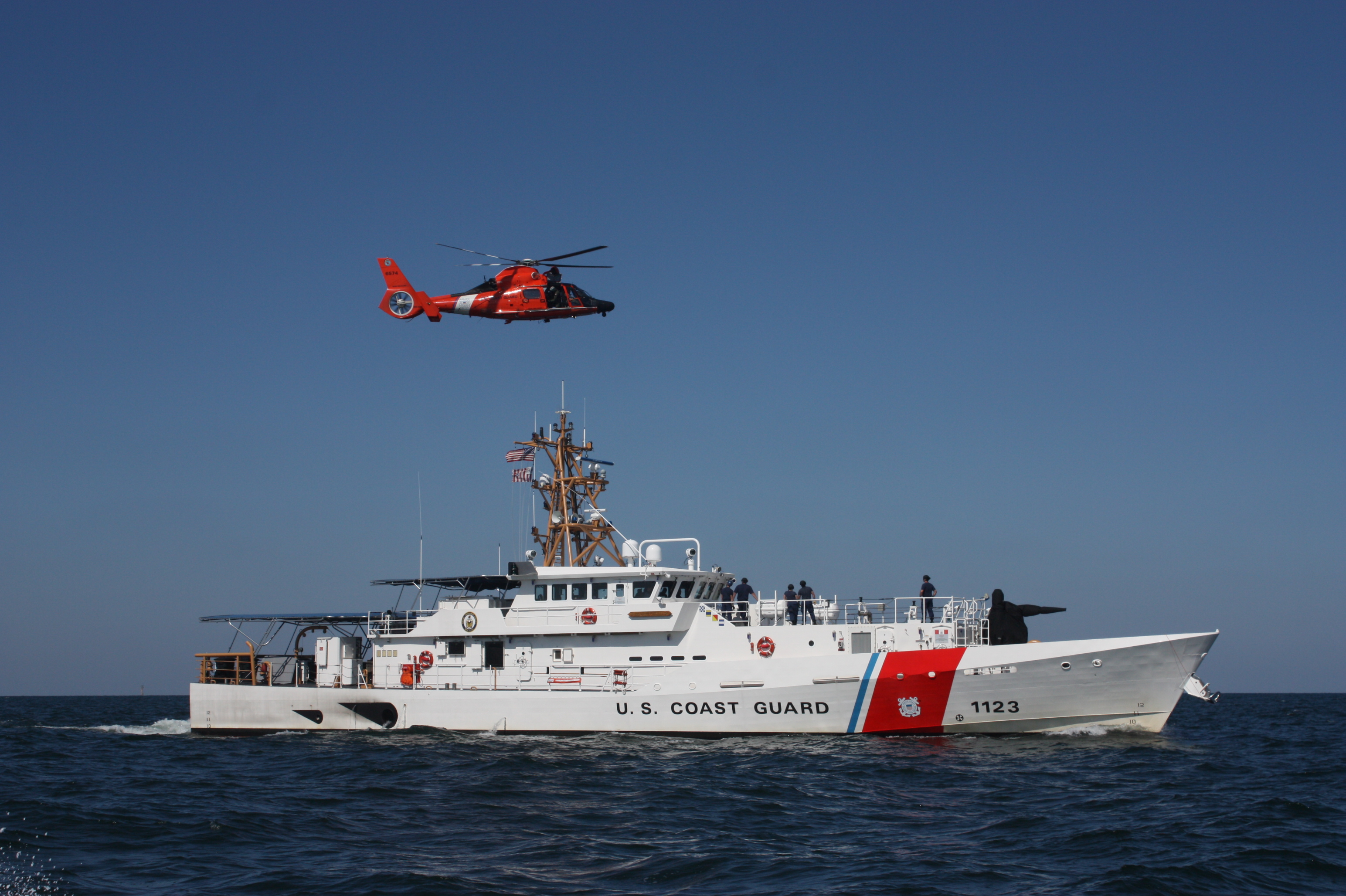 CGC BENJAMIN DAILEY, the first FRC stationed in Gulf of Mexico, conducts flight operations with a HH-65 from Air Station New Orleans. This provided cutter familiarity to the flight crews, as well as allowed the cutter crew to hone their skills at conducting vertical operations.